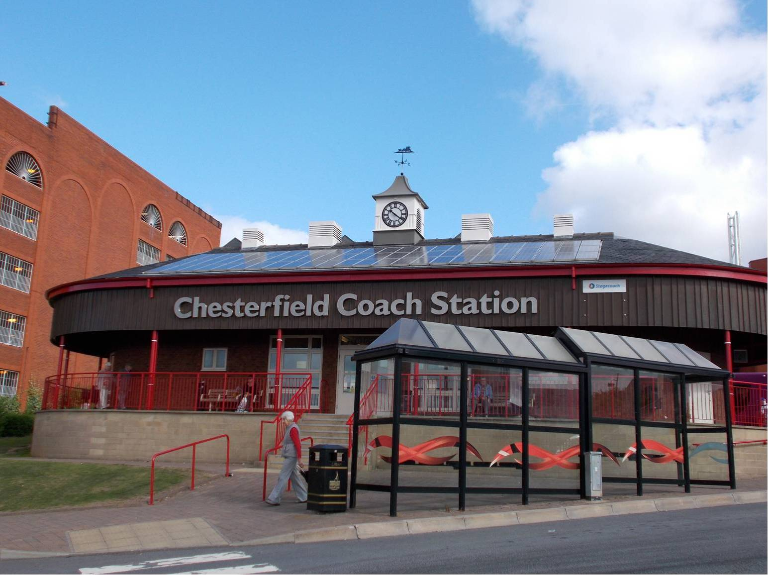 Chesterfield's new Coach Station 2013